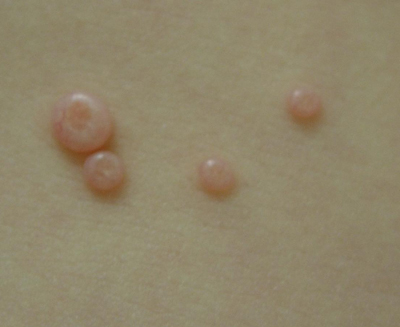 Close-up view of typical molluscum bumps.